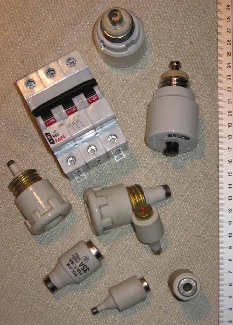 Electric (home or industrial use) fuses